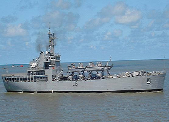 INS Shardul, the lead ship of her class of amphibious assault ships of the Indian Navy